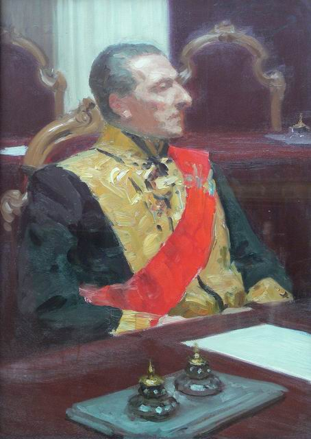 Portrait of member of State Council Andrey Alexandrovich Saburov. Study for the picture Formal Session of the State Council. Oil on canvas. 84 х 55.5 cm. The State Russian Museum, St. Petersburg.